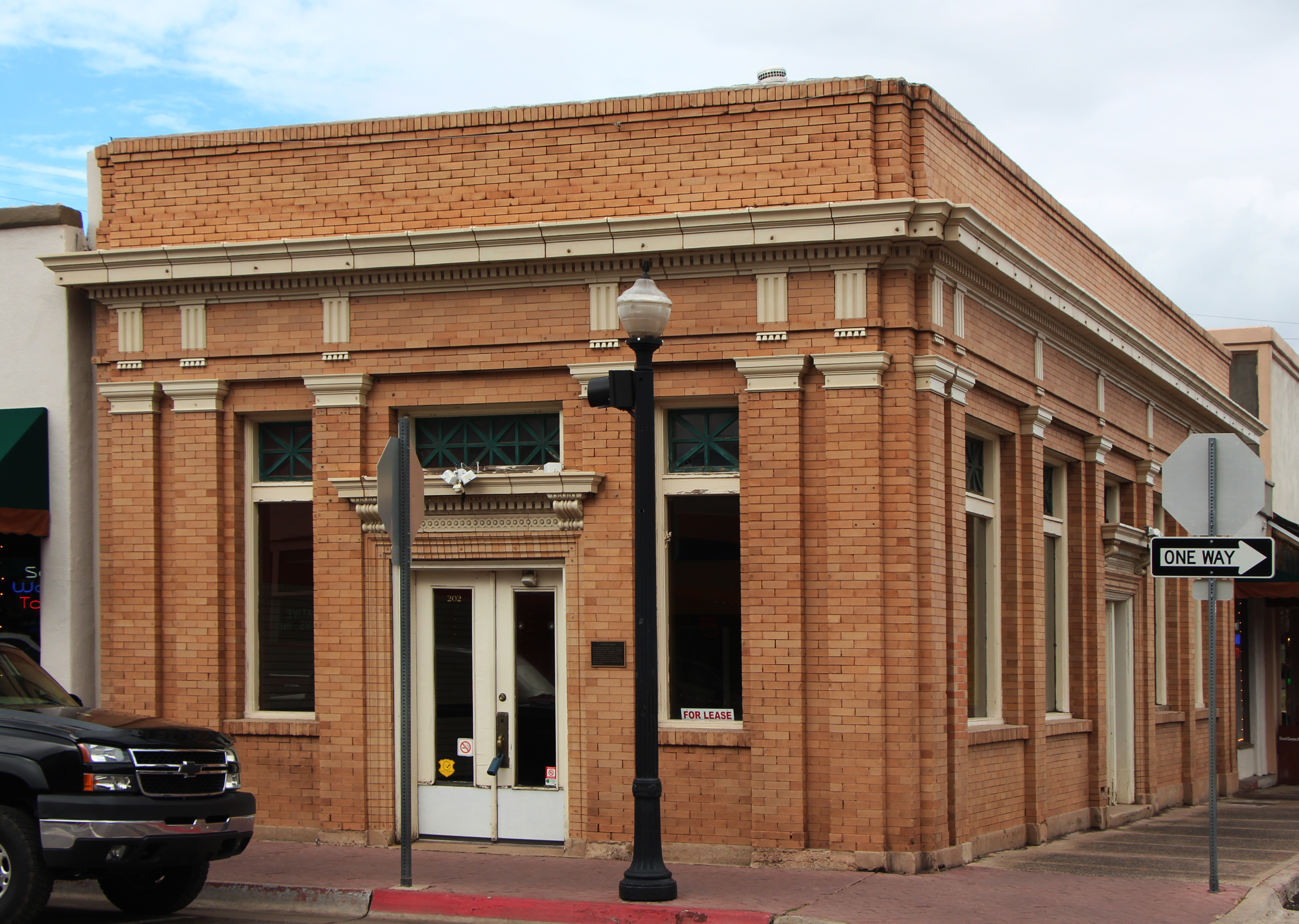 Citizen Bank, 202 W. Route 66, Williams, AZ